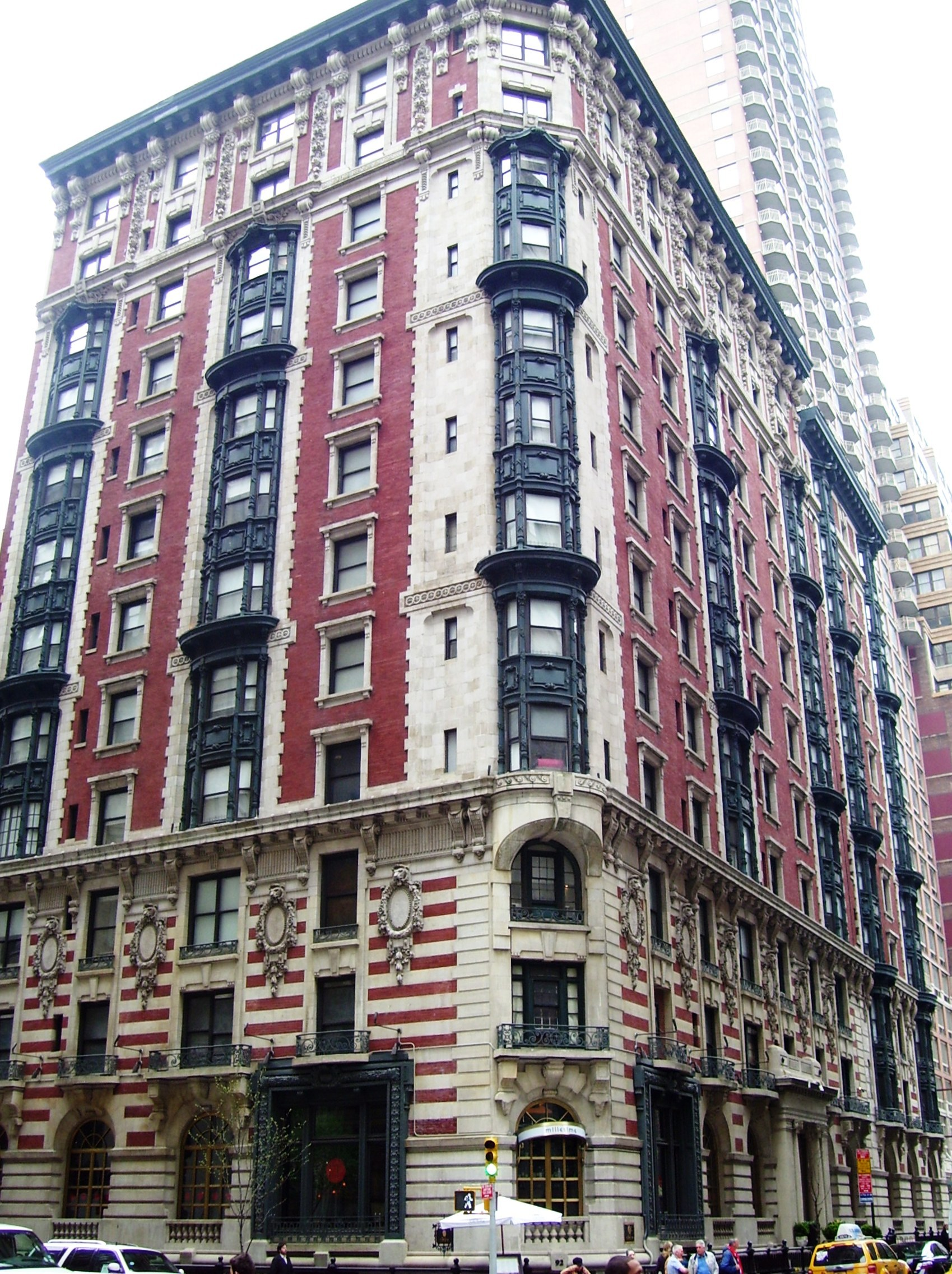 The Carlton Hotel at 88 Madison Avenue on the corner of 29th Street in the NoMad neighborhood of Manhattan, New York City was built in 1904 and was designed by Harry Allen Jacobs in the Beaux-Arts style. It was originally called the Hotel Seville. (Source: "Hotel History" on the Carlton Hotel website)